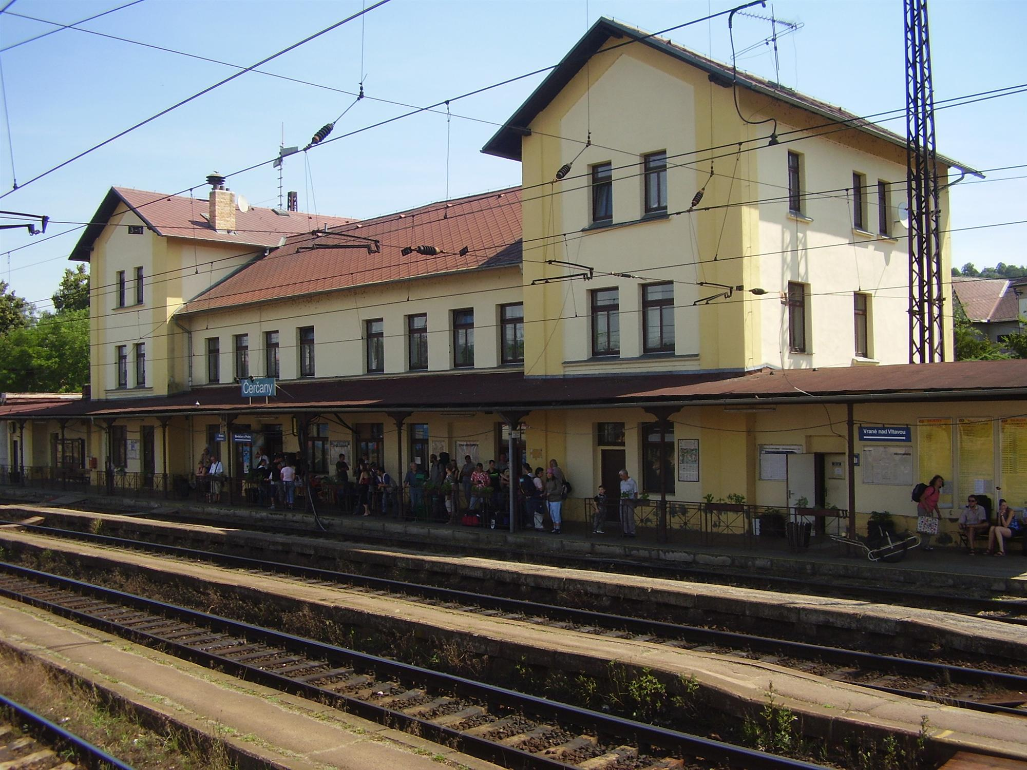 Train station in Čerčany, Benešov District